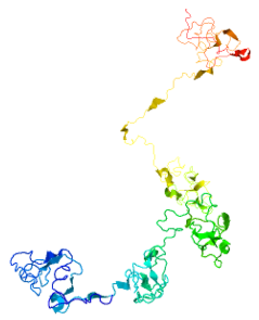 Secondary Structure Prediction of C16orf71